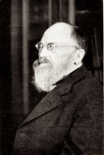 Wilhelm Weingart